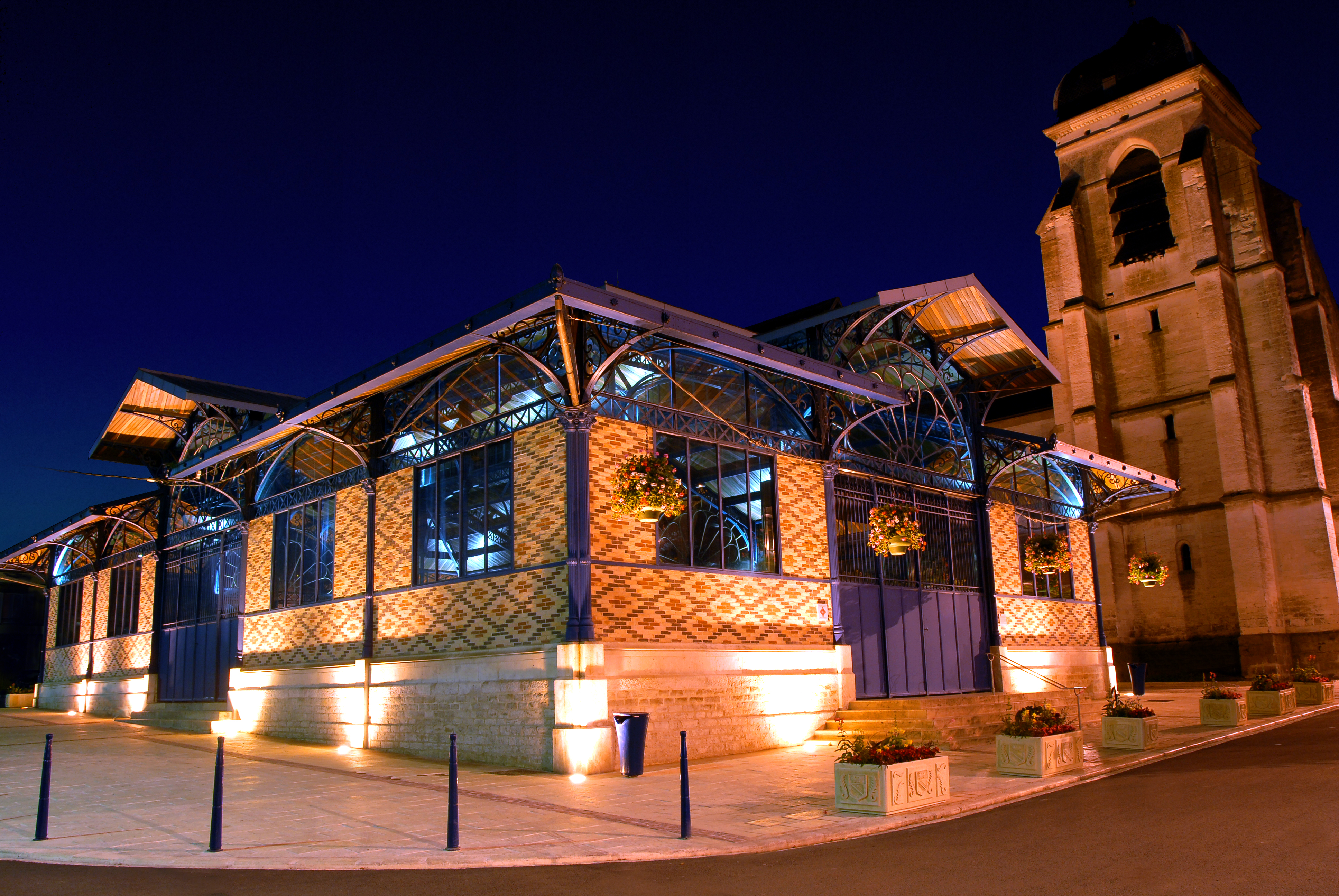 Halle de style Baltard (Aix en Othe, Aube, France)